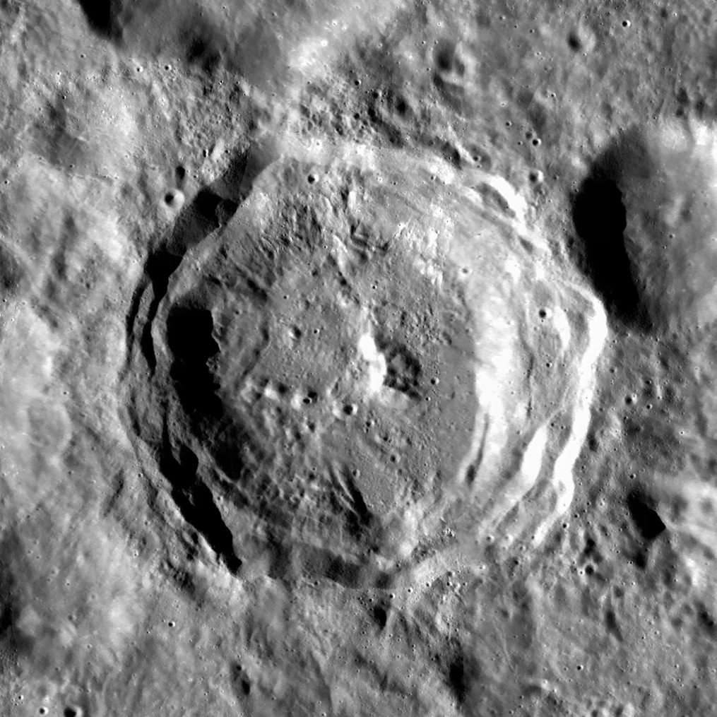 Crater Nušl on the Moon. Mosaic of photos by Lunar Reconnaissance Orbiter, made with Wide Angle Camera. Size of the image is 90×90 km, north is approximately up.